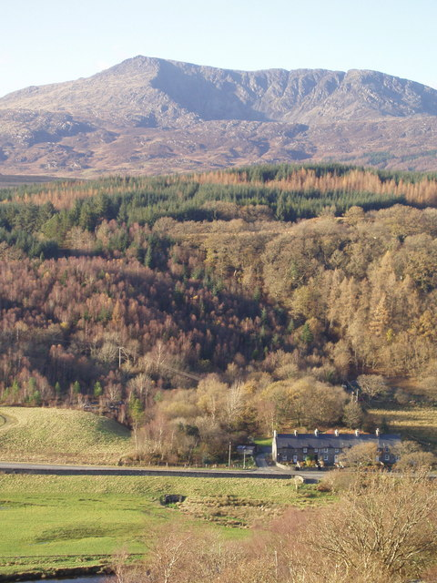 Prince Llewelyn Terrace under Moel Siabod Quarry mans cottages half way between Dolwyddelen and Pont-y-pant. Landscaped spoil heaps behind, left.